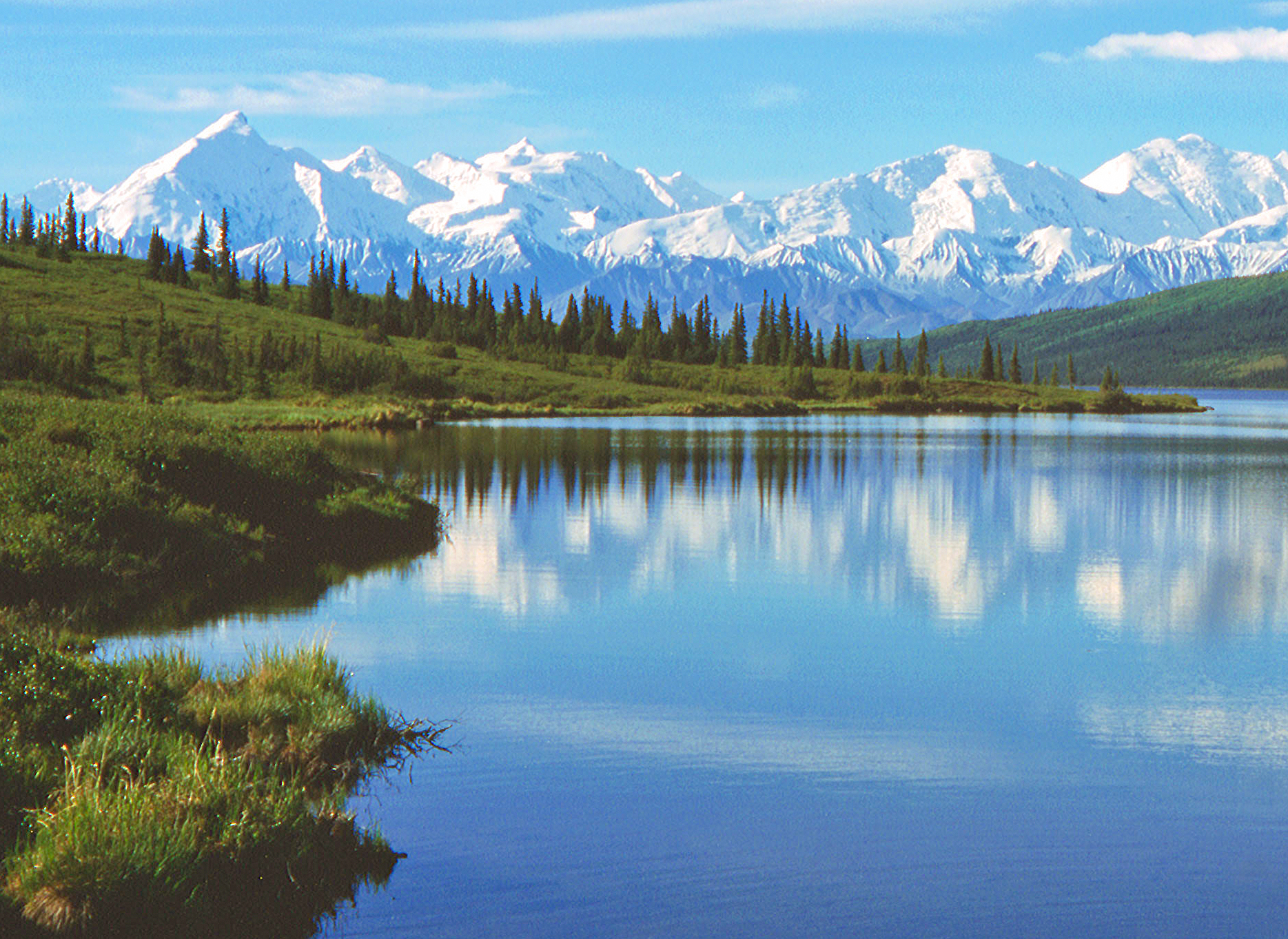 Wonder Lake, Denali National Park, Alaska. - Image-Neck